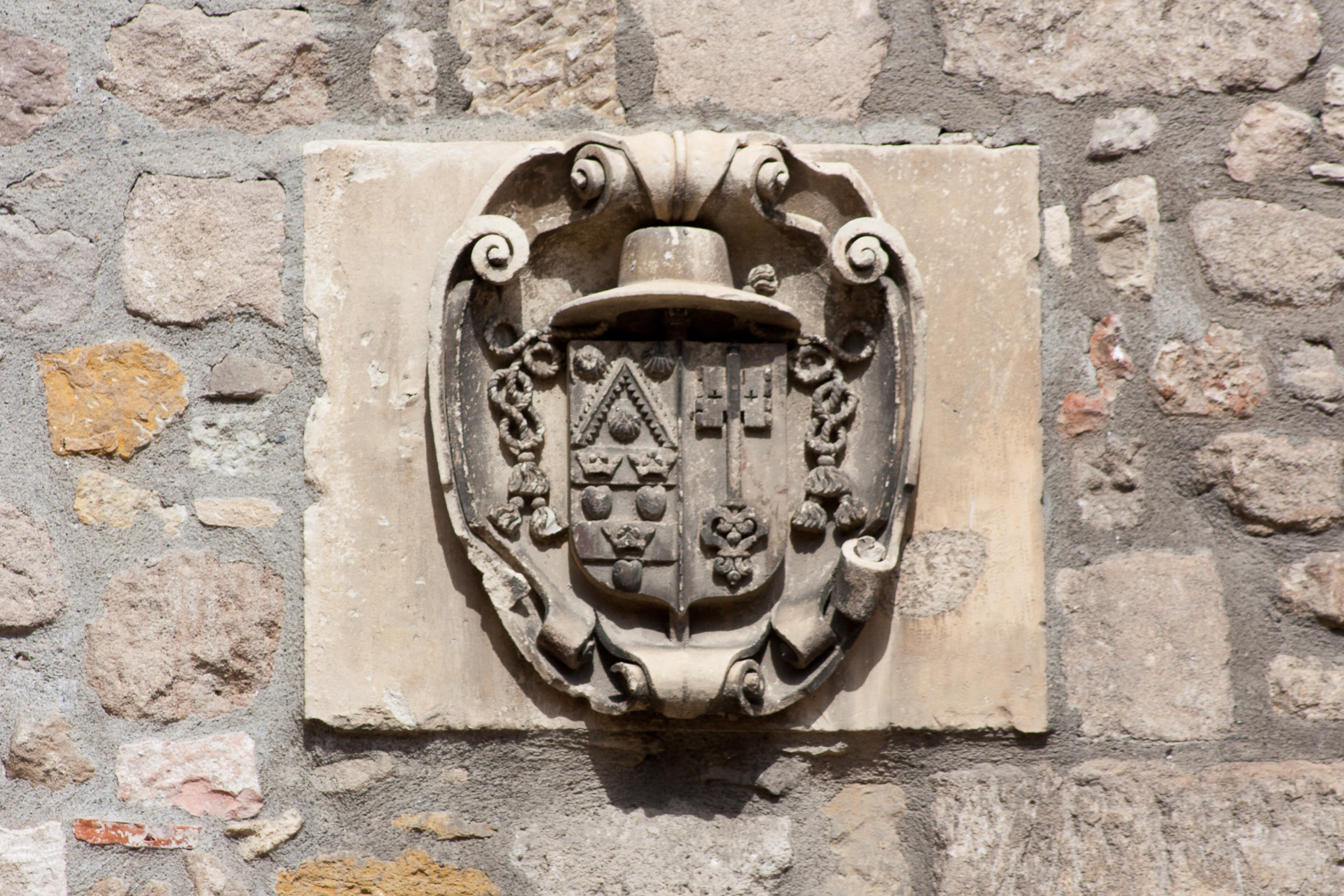 Coat of arms of prior François Rapine (17th century), on the south side.